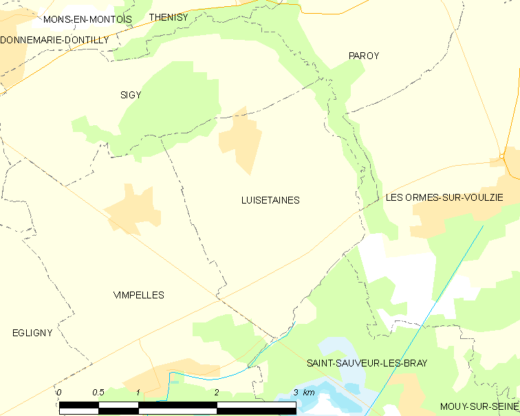 Map of French municipality Luisetaines